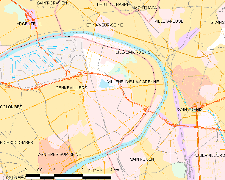 Map of French municipality L'Île-Saint-Denis